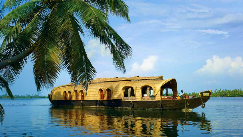 Houseboats at Kerala Backwaters, home.